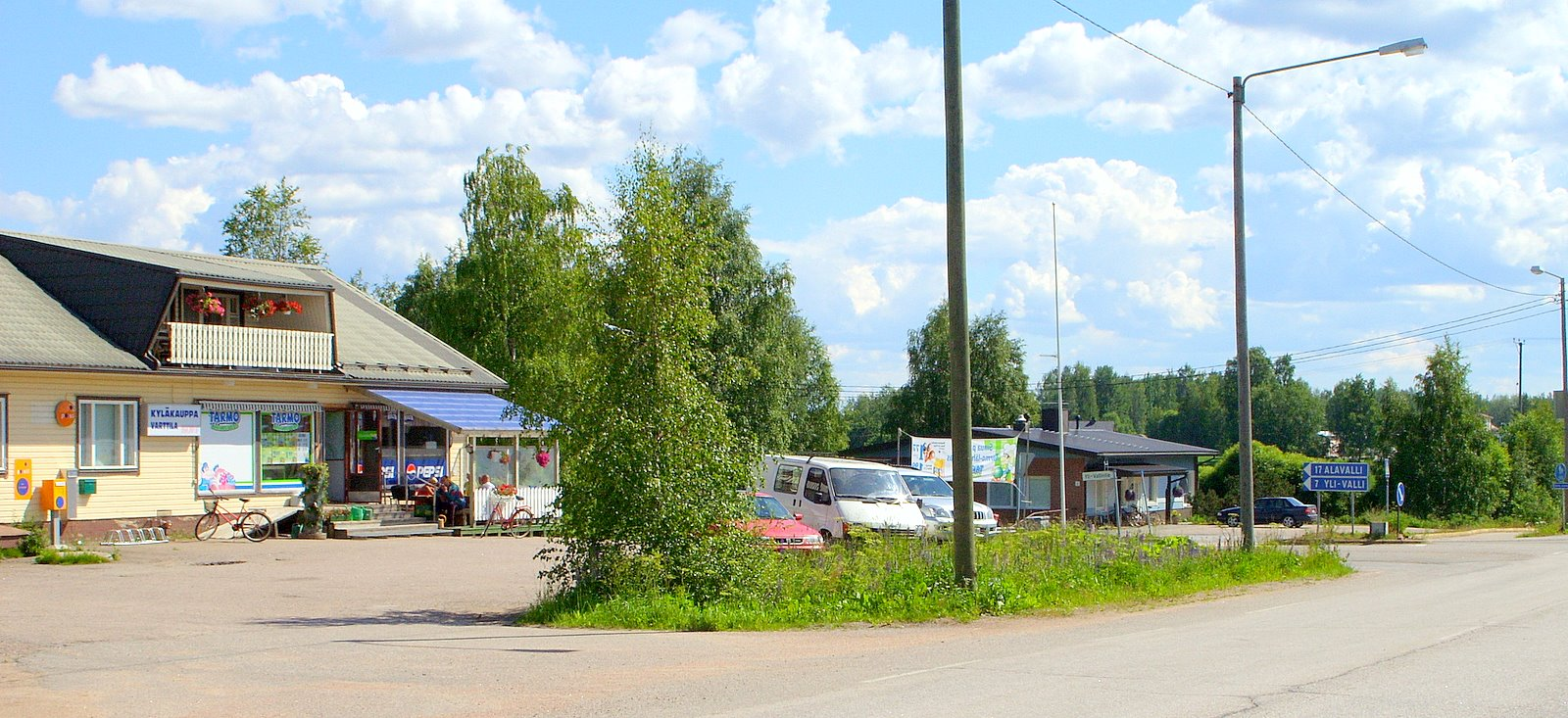 Koskue Koskue is the most southern village of Jalasjarvi. The last shop of the three shops serves also as a postal services agent, which is common on the countryside as the state postal offices has been closed because of rationalisation. Many local shops function on contractual bases as post offices to serve the local people and in some cases to attract the customers, who would not probably enter the shop, if it were not a post office too. Photograph: Samsung S850, Olli-Jukka Paloneva, , N 62°21.629', E 022°50.444'